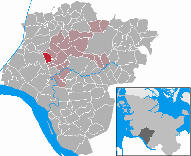 This map shows the area of the municipality Moorhusen in the Kreis (district) Steinburg, Schleswig-Holstein, Germany.